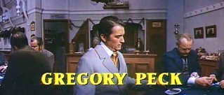 Cropped screenshot of Gregory Peck from the trailer for the film How the West Was Won